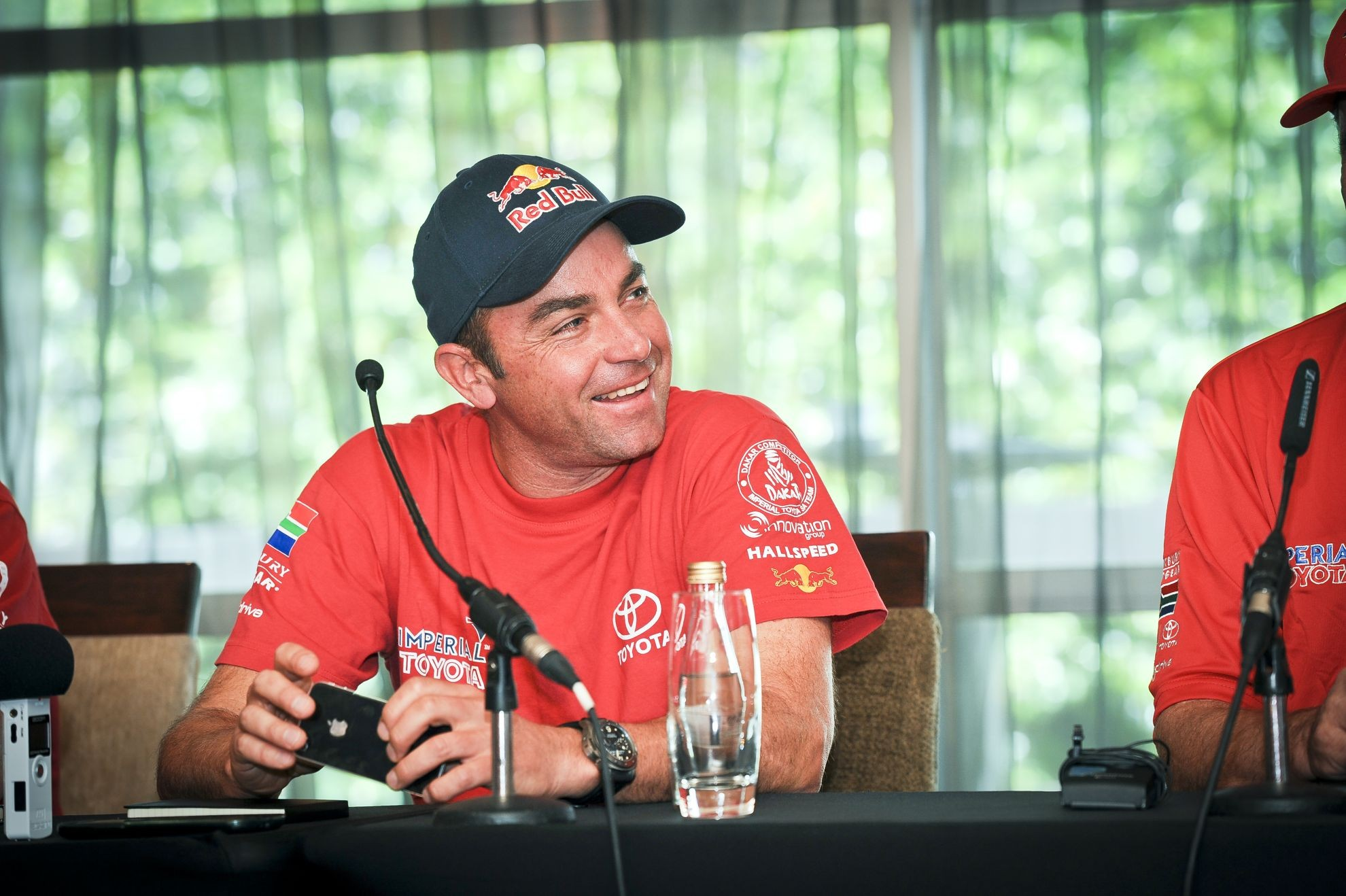 Image of Giniel De Villiers at the Toyota Dakar 2014 Press Conference at the OR Tambo International Airport on arrival back to South Africa from Brazil